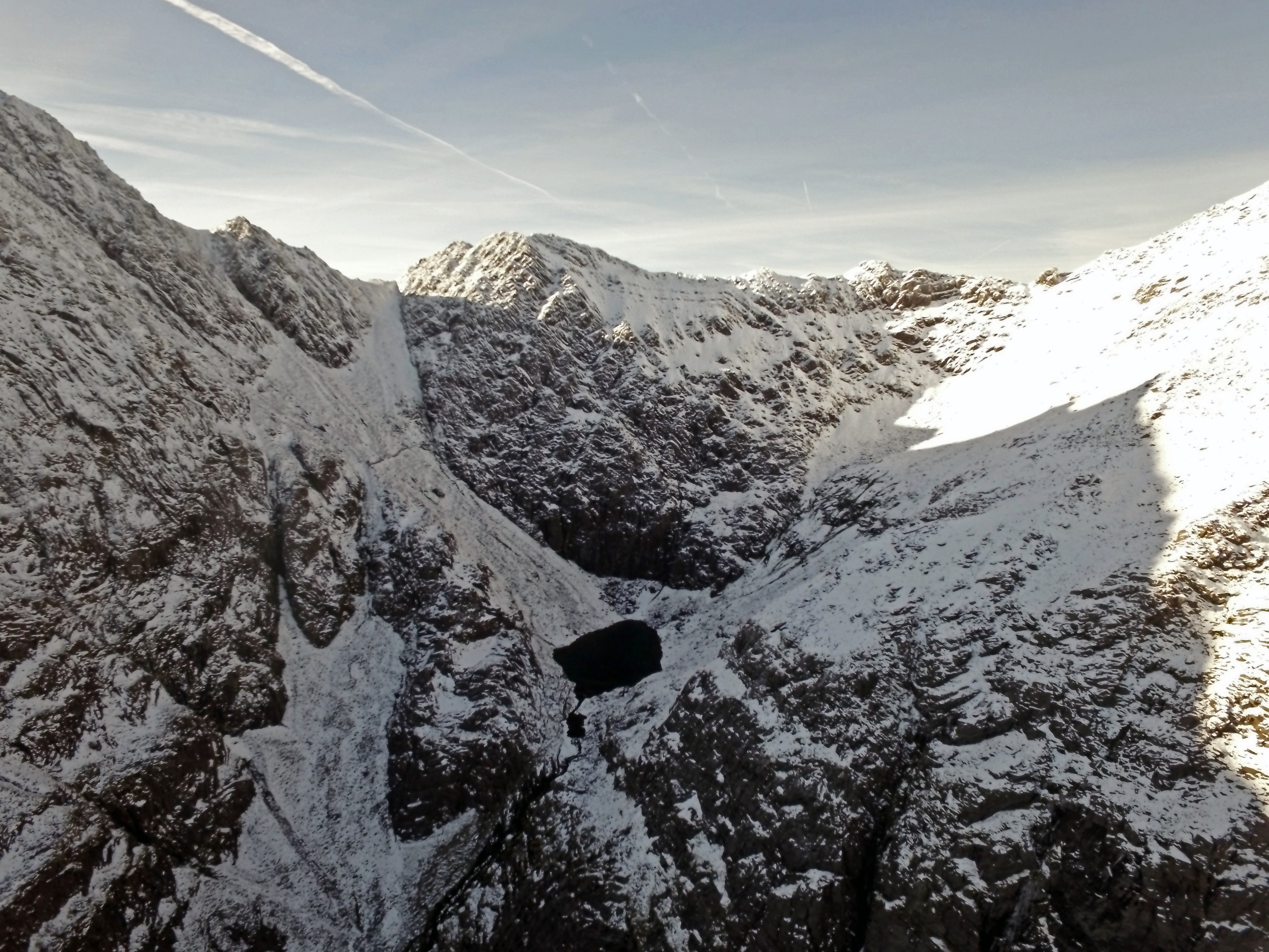 Looking into the Eagle's Nest corrie at Lough Cummeenoughter (third level of the corrie), with Carrauntoohil NE face (left), Beenkeragh Ridge (centre), The Bones summit (left centre) and Brother O'Shea's Gully (below The Bones) visible